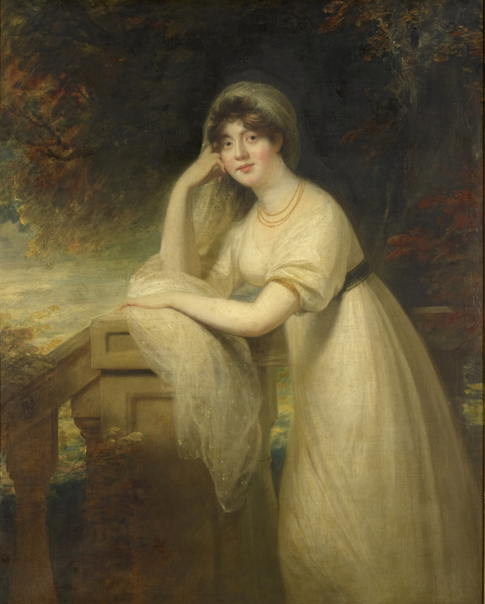 This portrait must date from c. 1800 when the sitter was 23. It is executed in a formula devised by Reynolds and Romney in the 1770s to express a young lady’s simplicity and sensibility. The white dress, veil and strings of pearls are simple and unaffected; the tender posture, dreamy smile, flushed cheeks and natural setting convey the sitter’s fine feelings.